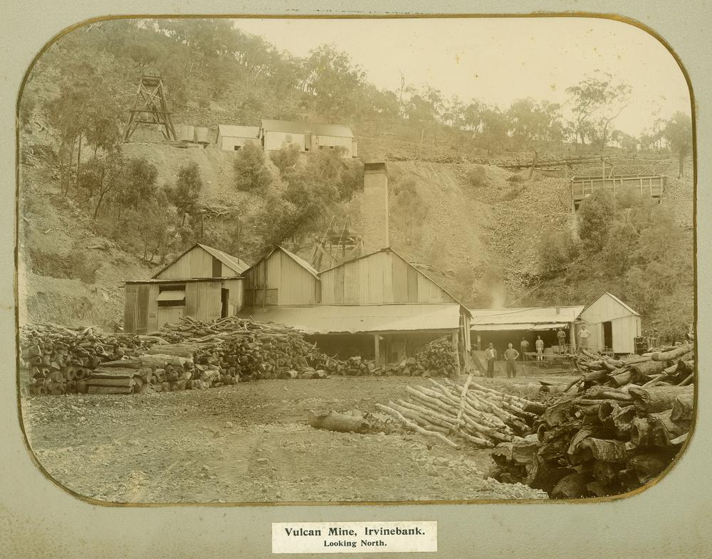 Vulcan tin mine in the Irvinebank district Entrance to the mine, looking north.